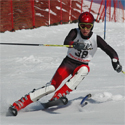 Karolis Janulionis of the Kalnu Ereliai Ski Team from Vilnius, Lithuania runs slalom in Italy.